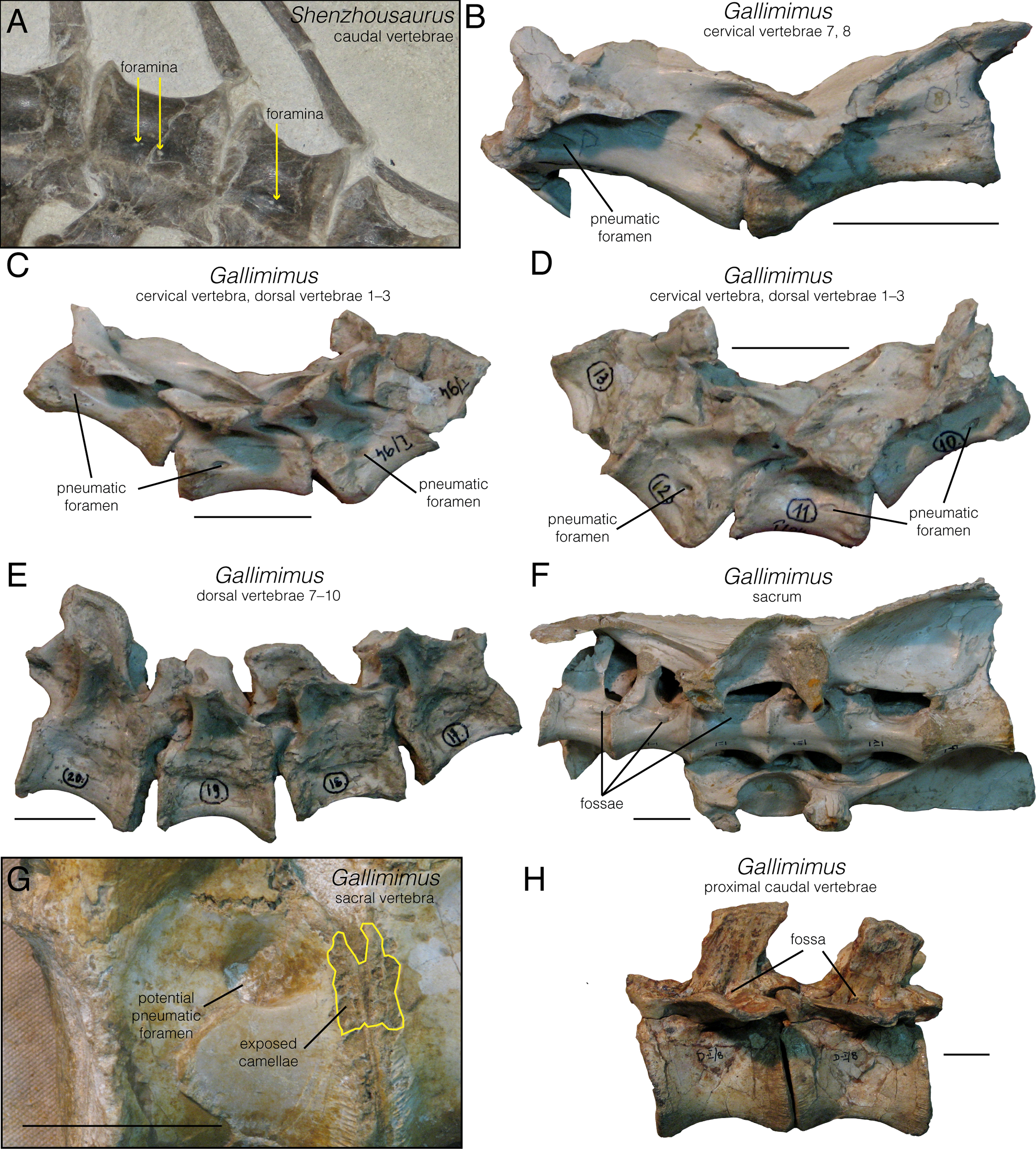 Select vertebrae highlighting the extent of pneumatic structures in Senzhousaurus and Gallimimus. A, proximal caudal vertebrae of Senzhousaurus (NGMC-97-4-002), oblique right lateral view; B, cervical vertebrae 7, 8 of Gallimimus (ZPAL MgD-I/94), left lateral view; C, D, left and right lateral views of cervical vertebra and dorsal vertebrae 1, 2 of Gallimimus (ZPAL MgD-I/94) respectively; E, apneumatic dorsal vertebrae 7–10 of Gallimimus (ZPAL MgD-I/94), right lateral view; F, sacrum of Gallimimus (ZPAL MgD-I/94), left lateral view; G, articulated sacral vertebrae of Gallimimus (ZPAL MgD-I/29); H, proximal caudal vertebrae of Gallimimus (ZPAL MgD-I/8), left lateral view. Scale bar equals 3 cm.